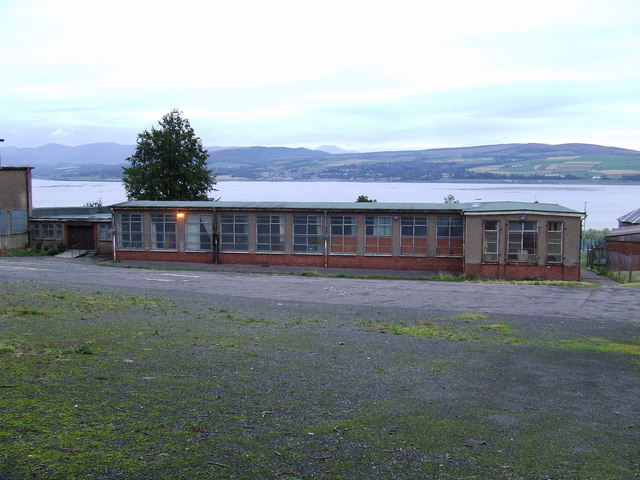 Former Holy Family RC Primary School. The single storey Infants block which housed Primary 1 & 2 pupils. See also 572930 and 350314. The River Clyde, Cardross and Ben Lomond are visible in the distance.